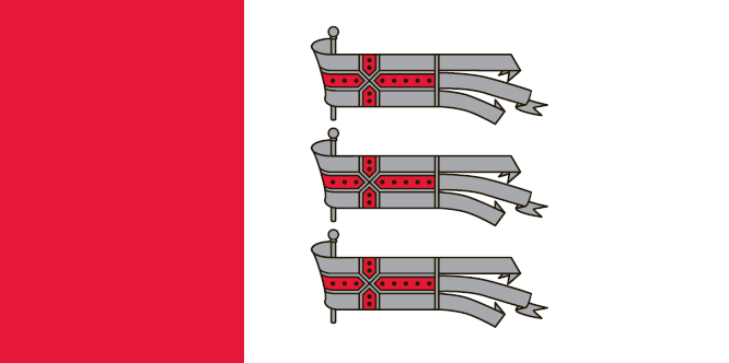 Flag of Daugavpils Municipality, Latvia.